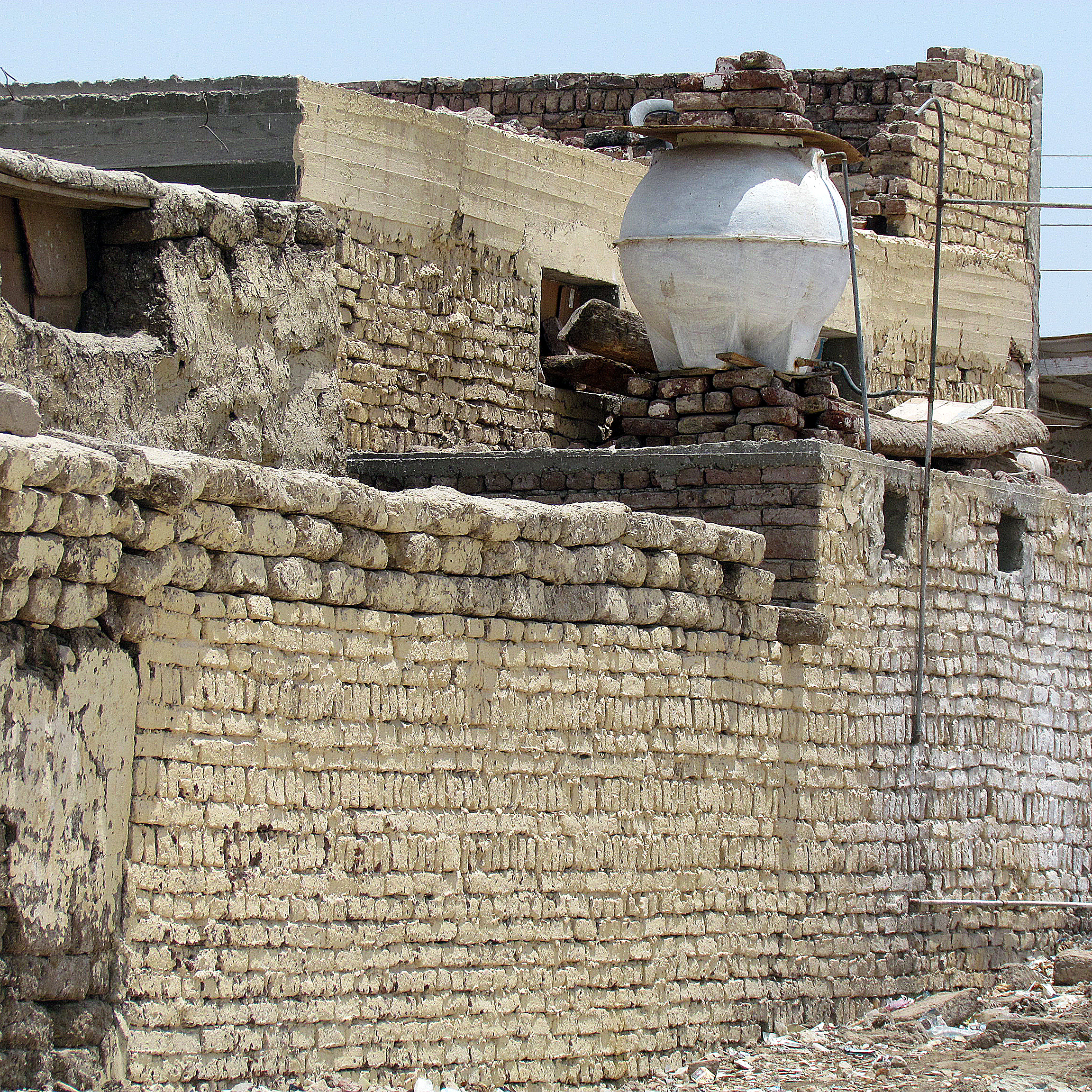 House made of adobes near Karnak, Egypt